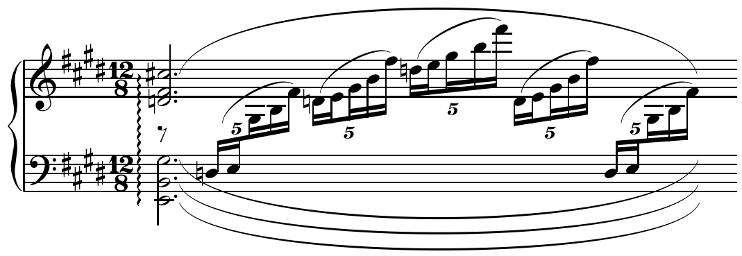 Dominant thirteenth chord in Claude Debussy's Prelude to the Afternoon of a Faun (1894). Created by Hyacinth (talk) 02:50, 5 July 2009 using Sibelius 5.